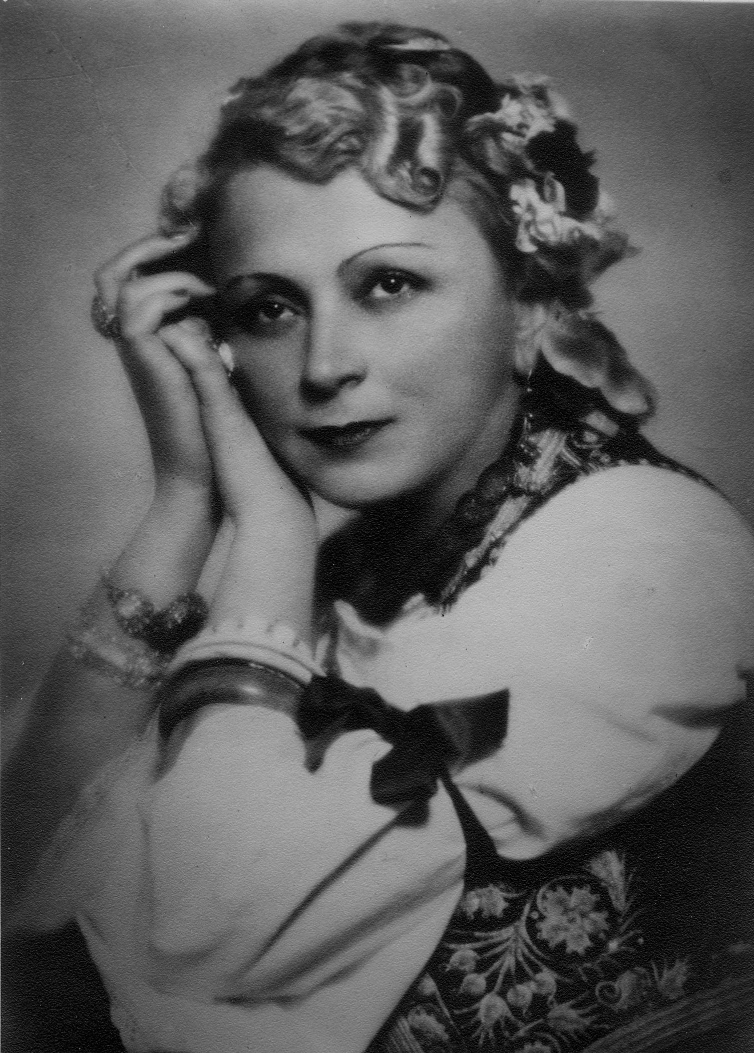 The actress Desanka Desa Dugalić at the beginning of her career